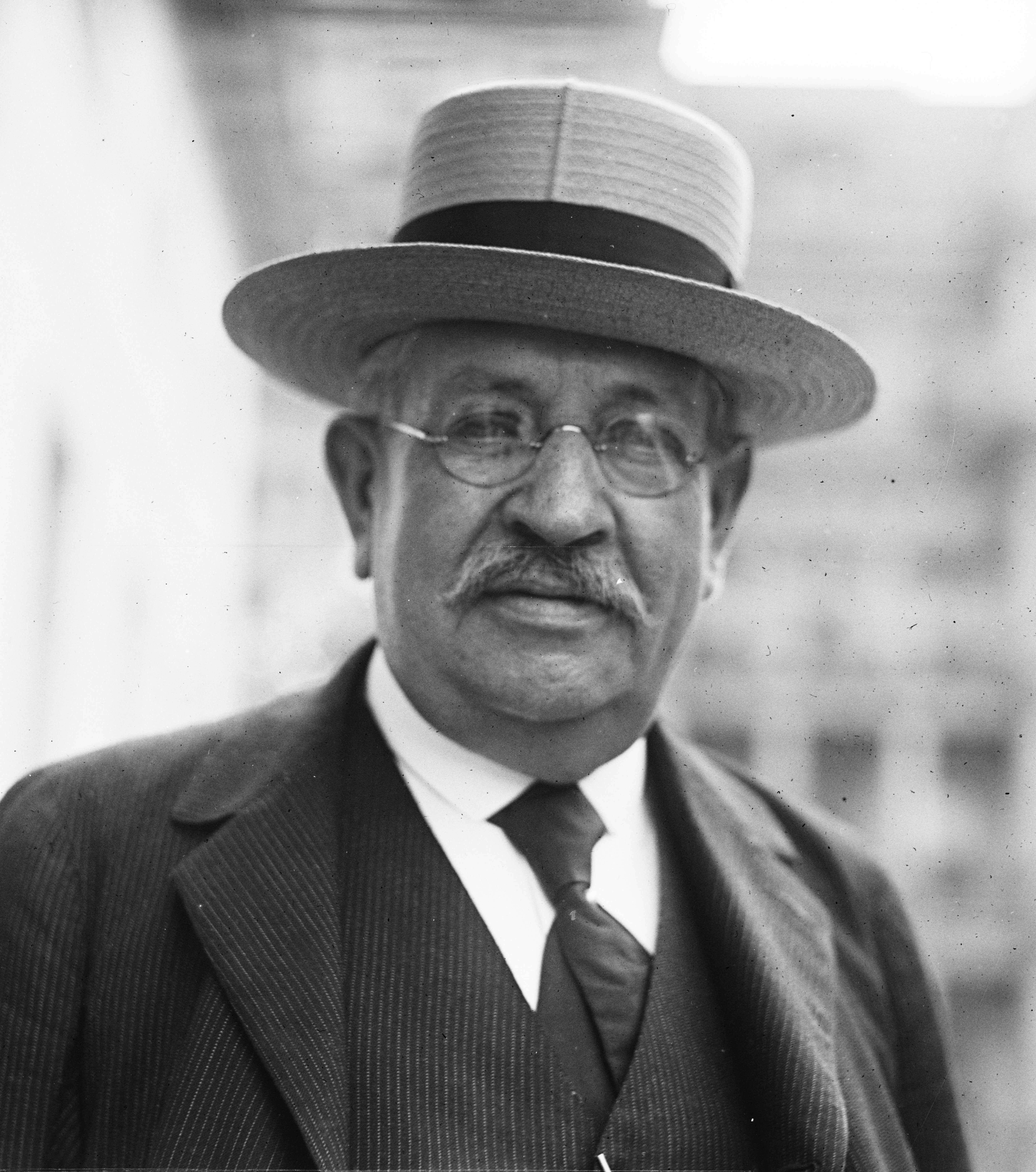 Title: Frank W. Stearns, close friend of Pres. Coolidge [White House, Washington, D.C.] Abstract/medium: 1 negative : glass ; 4 x 5 in. or smaller